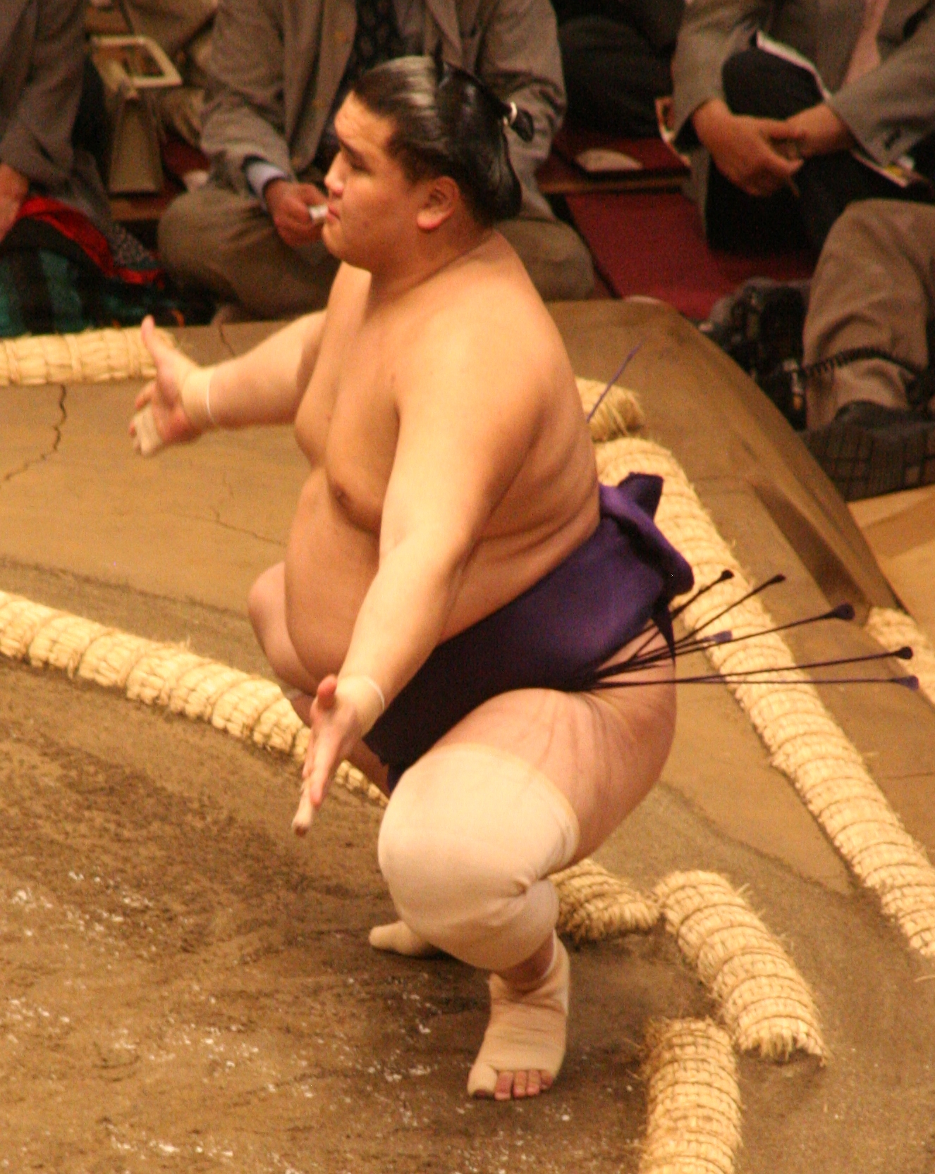 First day of 2009 May Sumo Tournament in Tokyo, Japan - Shotenro